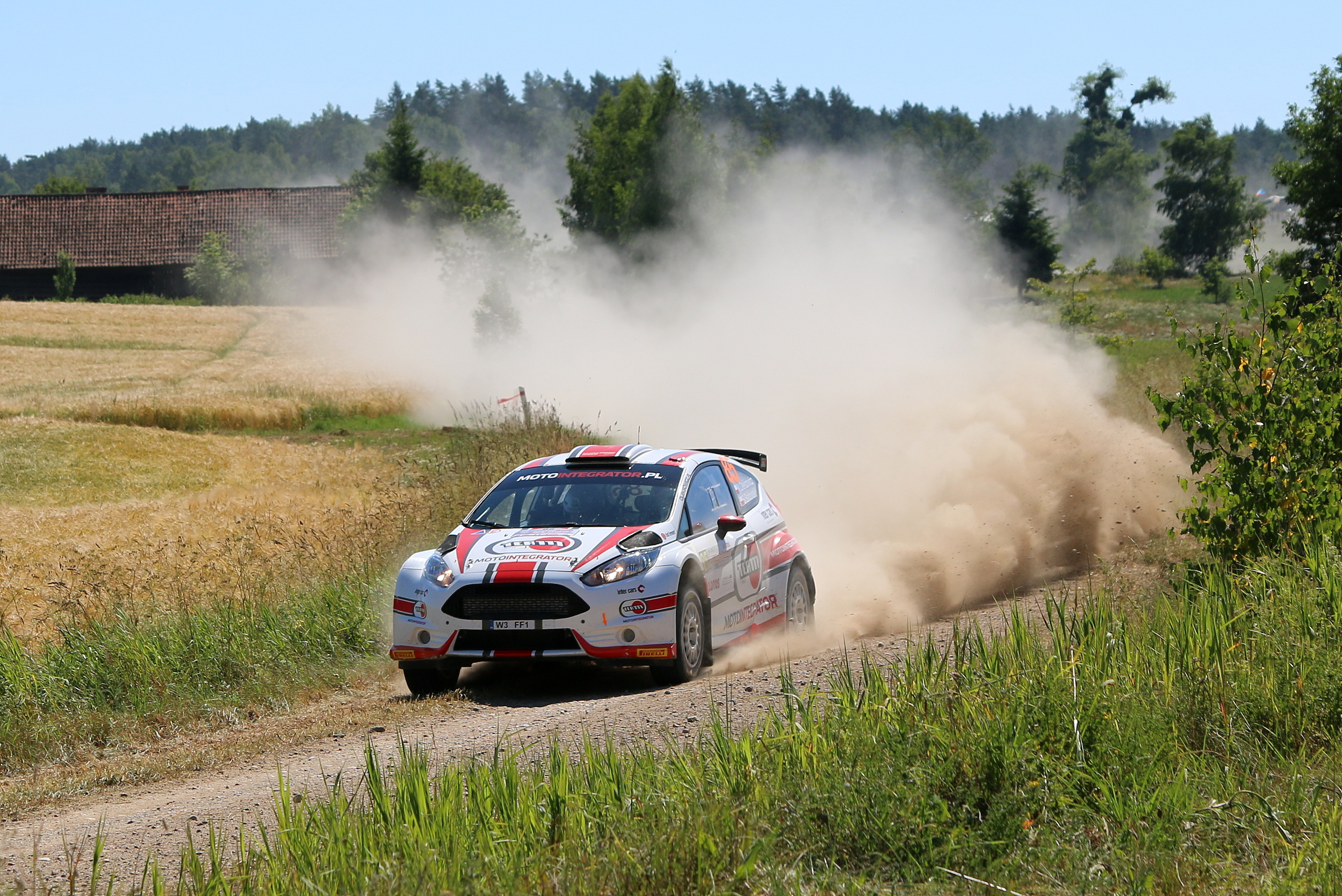 Krzysztof Oleksowicz, OS 10 Mazury, 72nd LOTOS Rally Poland